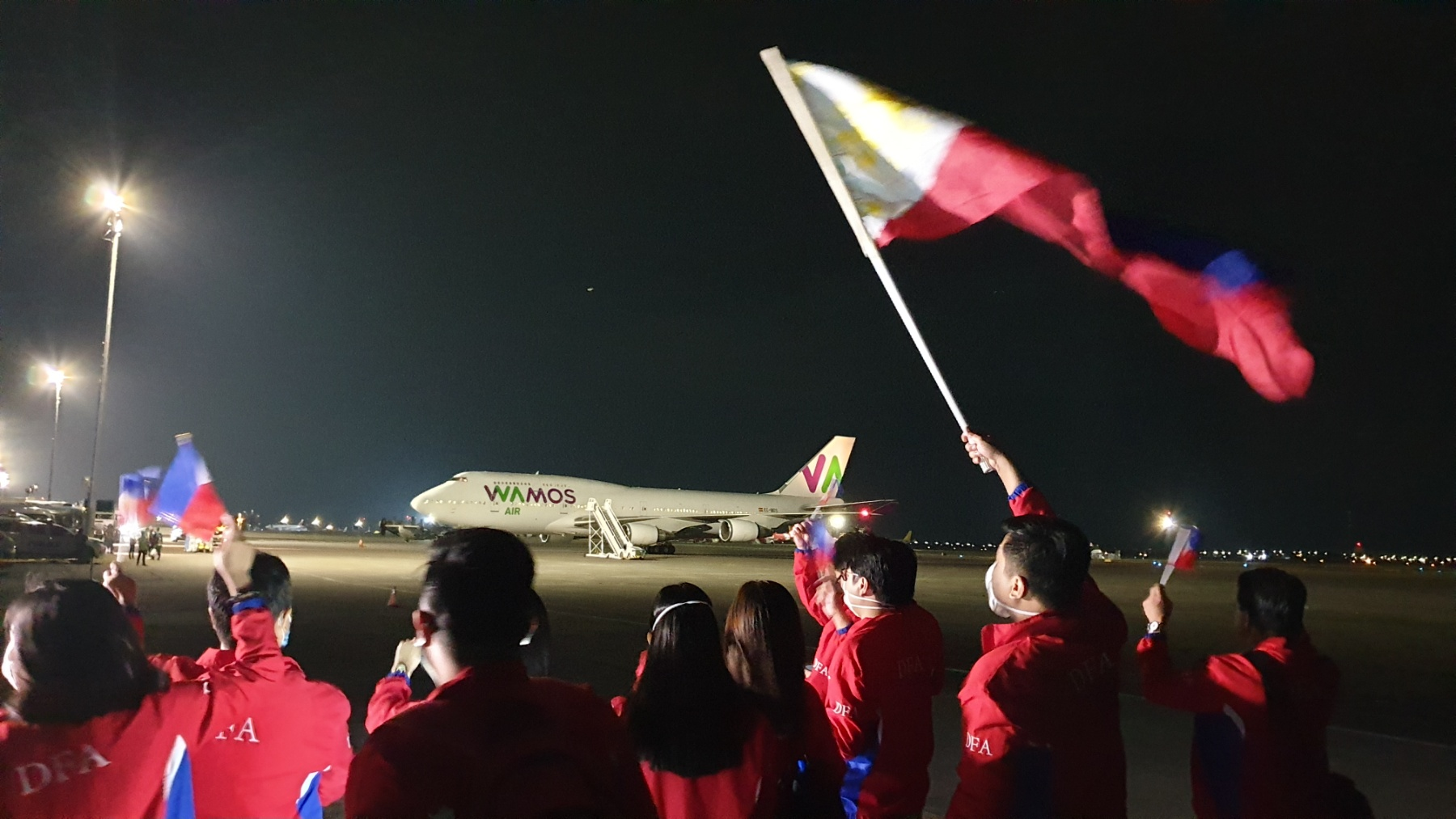 Philippine Department of Foreign Affairs brings home 444 Filipino crew members and passengers aboard MV Grand Princess from San Francisco, USA